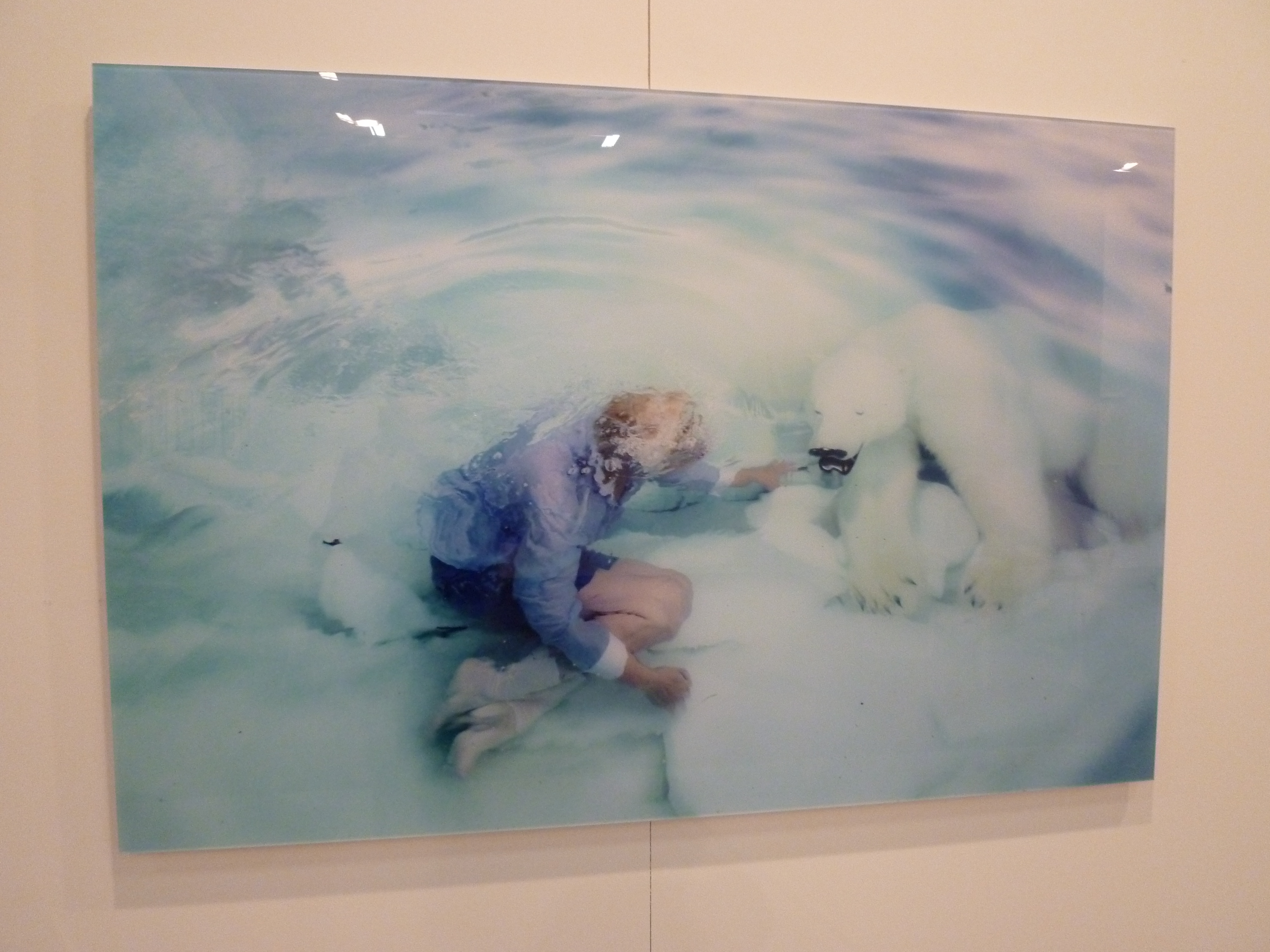 Susanna Majuri, Polar Bear, 2009 (Gallery TalK / Timothy Persons)